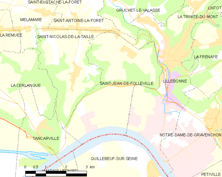 Map of French municipality Saint-Jean-de-Folleville